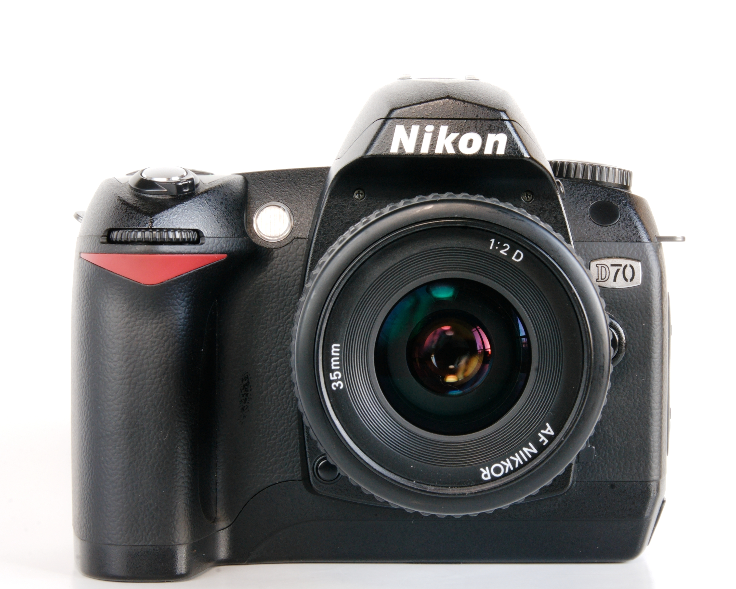 Nikon D70 dSLR with a Nikkor AF 35 mm f/2.